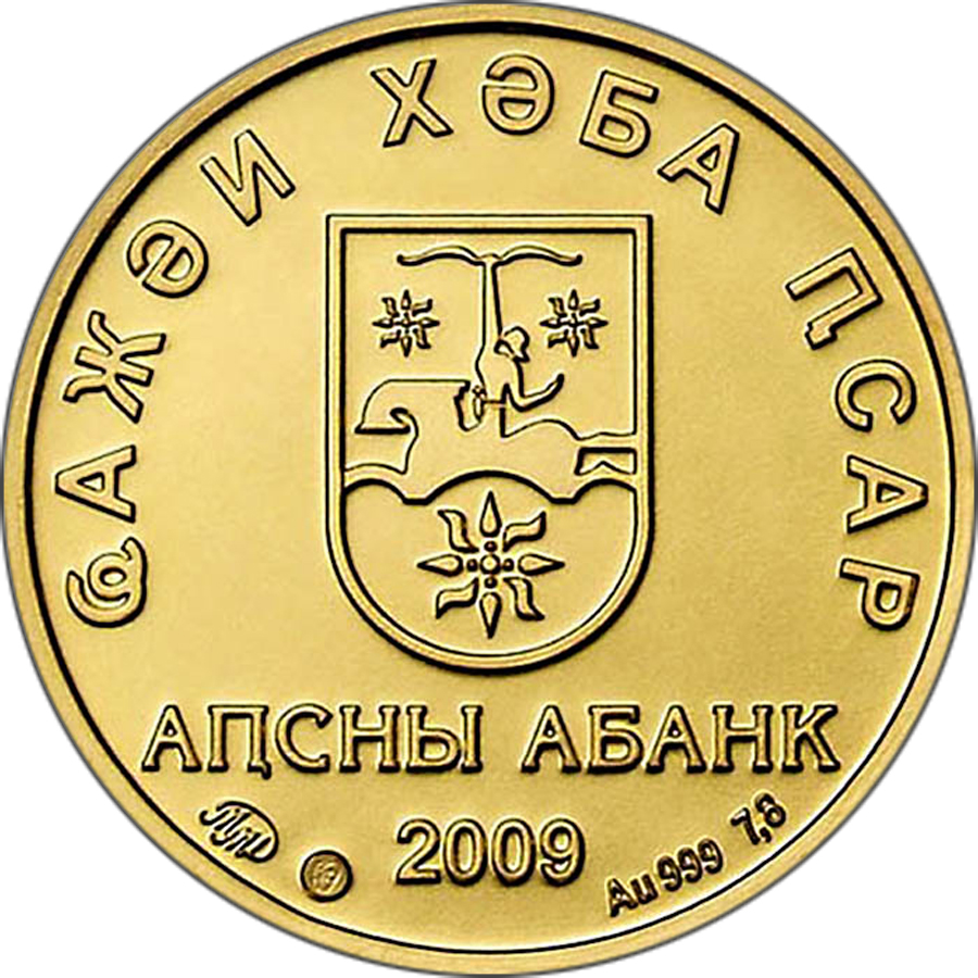 Coin «Nart», 25 apsars, 2009, Au999, obverse